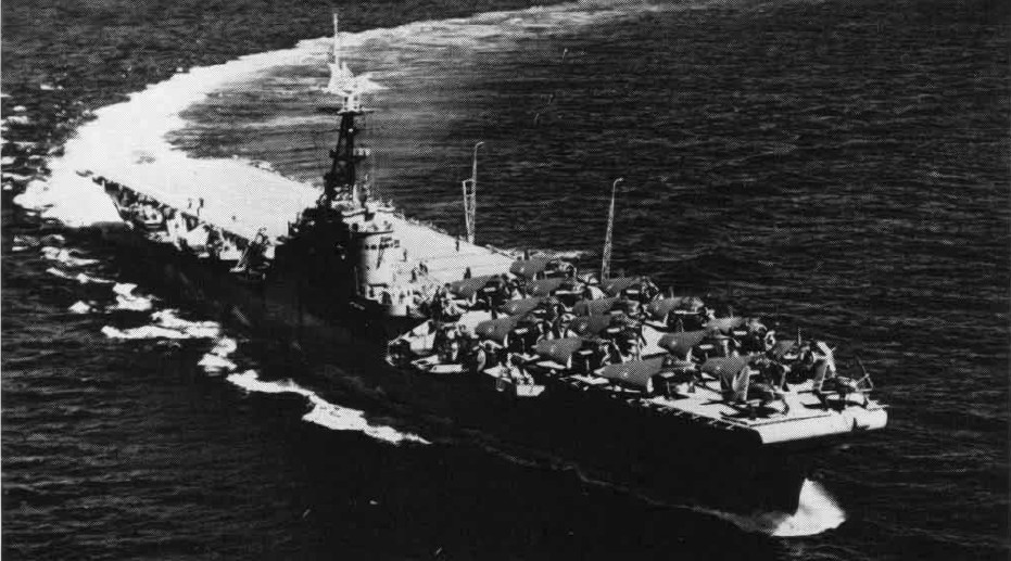 The Canadian aircraft carrier HMCS Magninficent (CVL 21) in the mid-1950s with 15 Grumman Avenger AS.3 of No. 881 Sqn. and two Hawker Sea Fury FB.11 fighters of No. 871 Sqn. on deck.